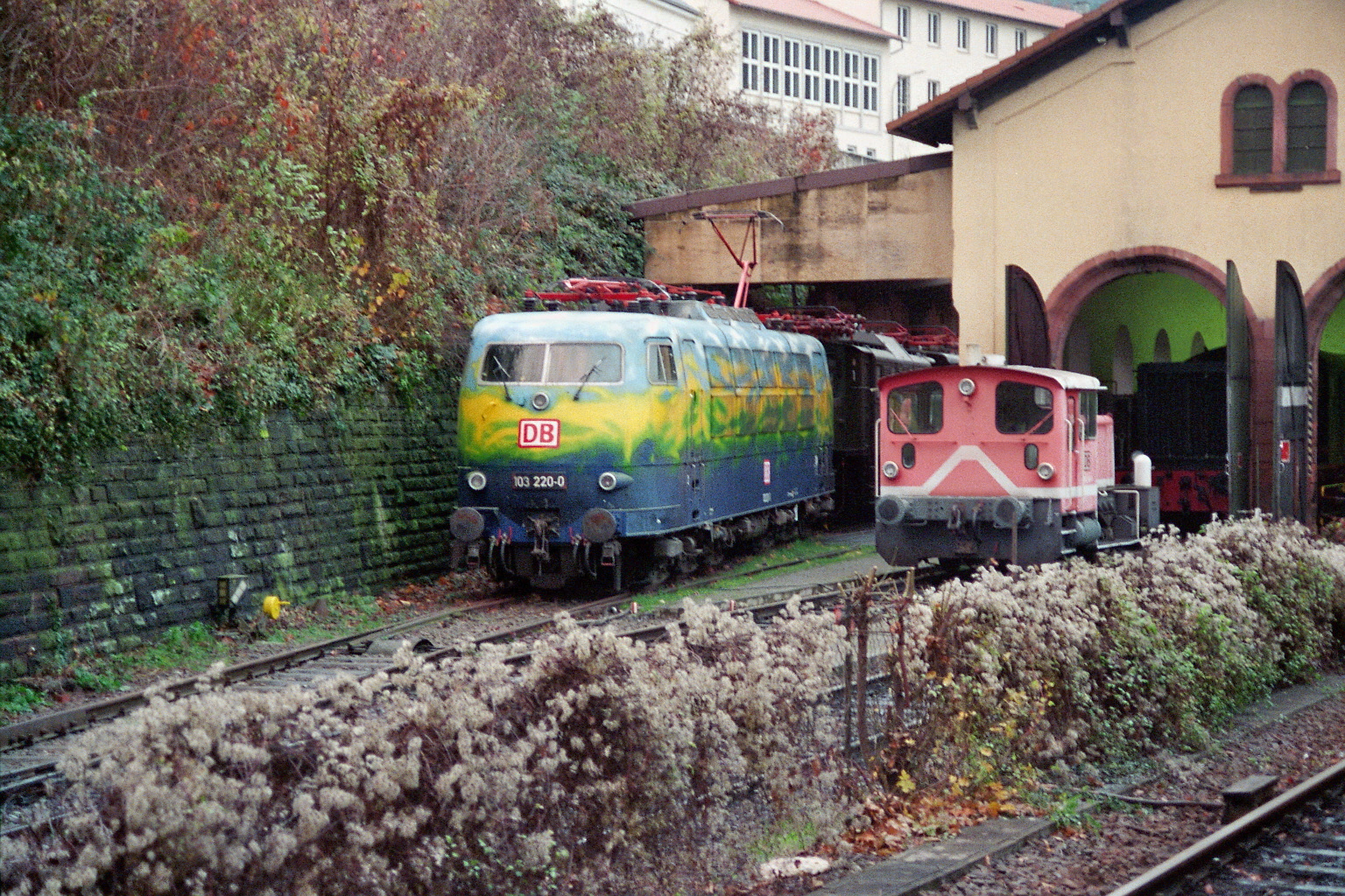 DB Class 103 on 06th december 2008 at railway museum Neustadt / Weinstraße